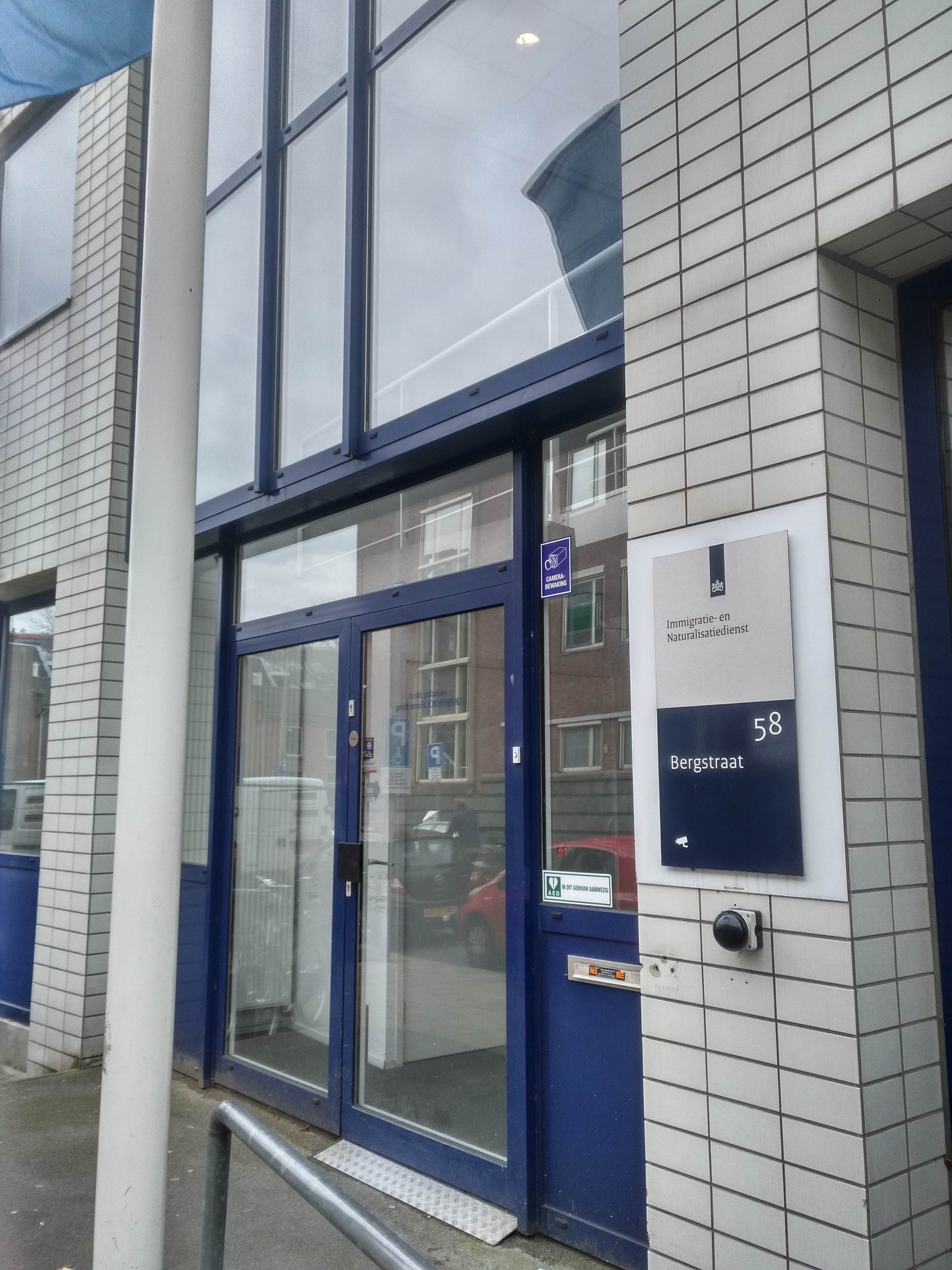 An office of the immigration- and naturalisation-service of the Kingdom of the Netherlands in the city of Utrecht.